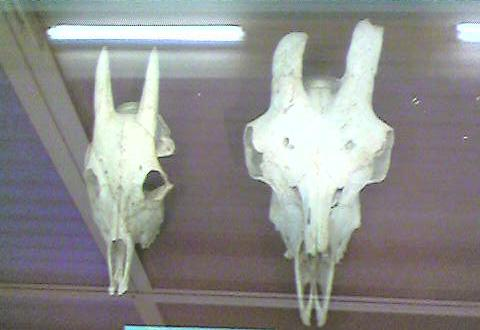 Myotragus balearicus skull, from the Institut de Paleontologia Miquel Crusafont